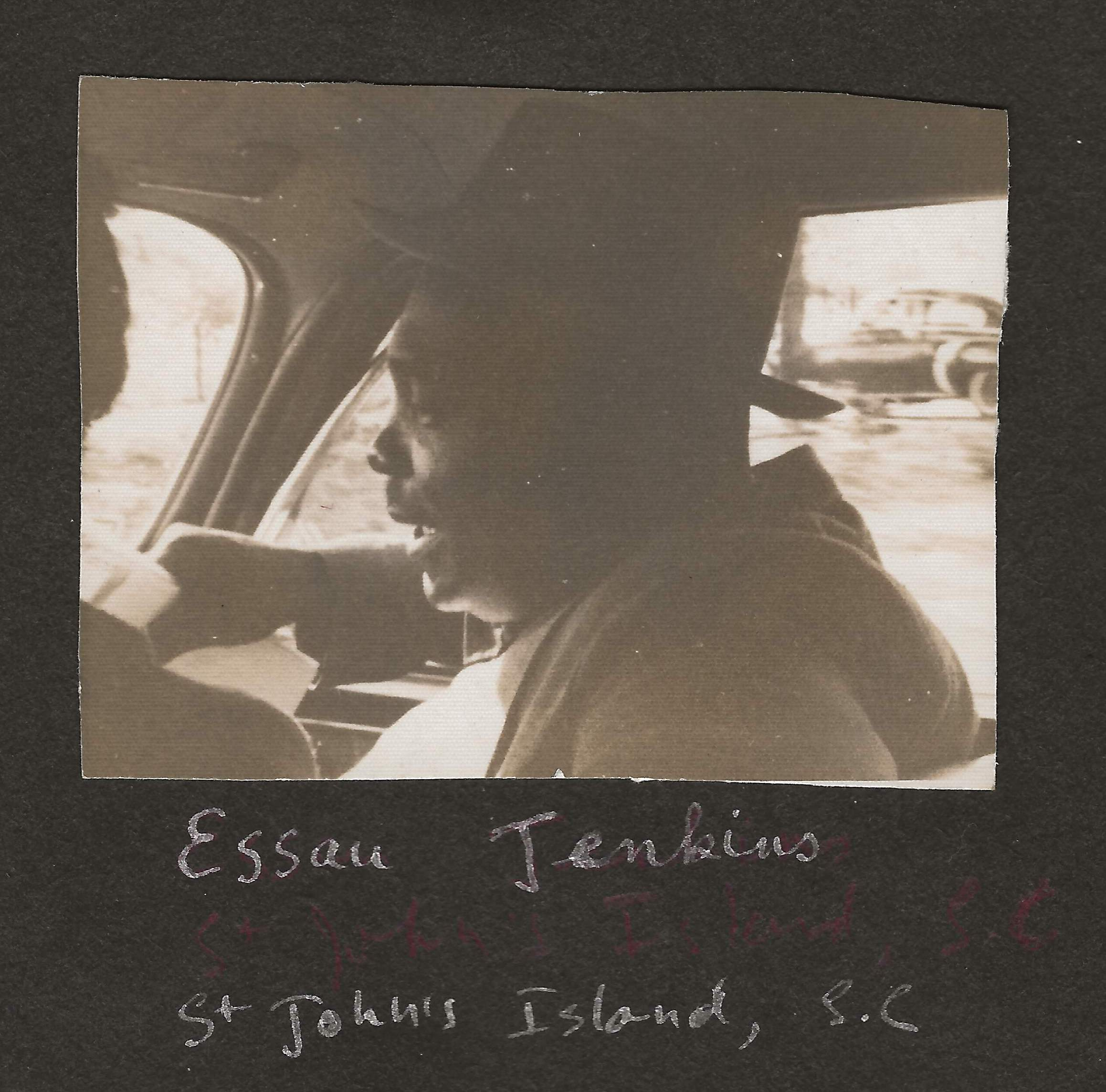 1960 photo of Esau Jenkins on St. Johns Island, South Carolina, by Collin Gonze